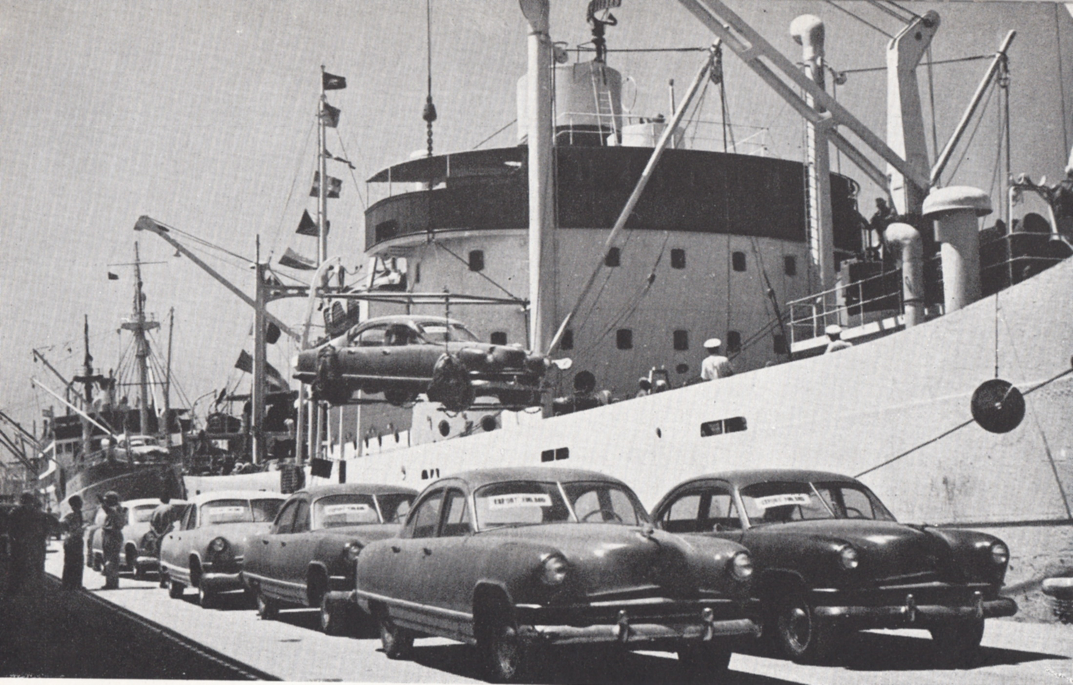 Car exports from Israel, Economy of Israel